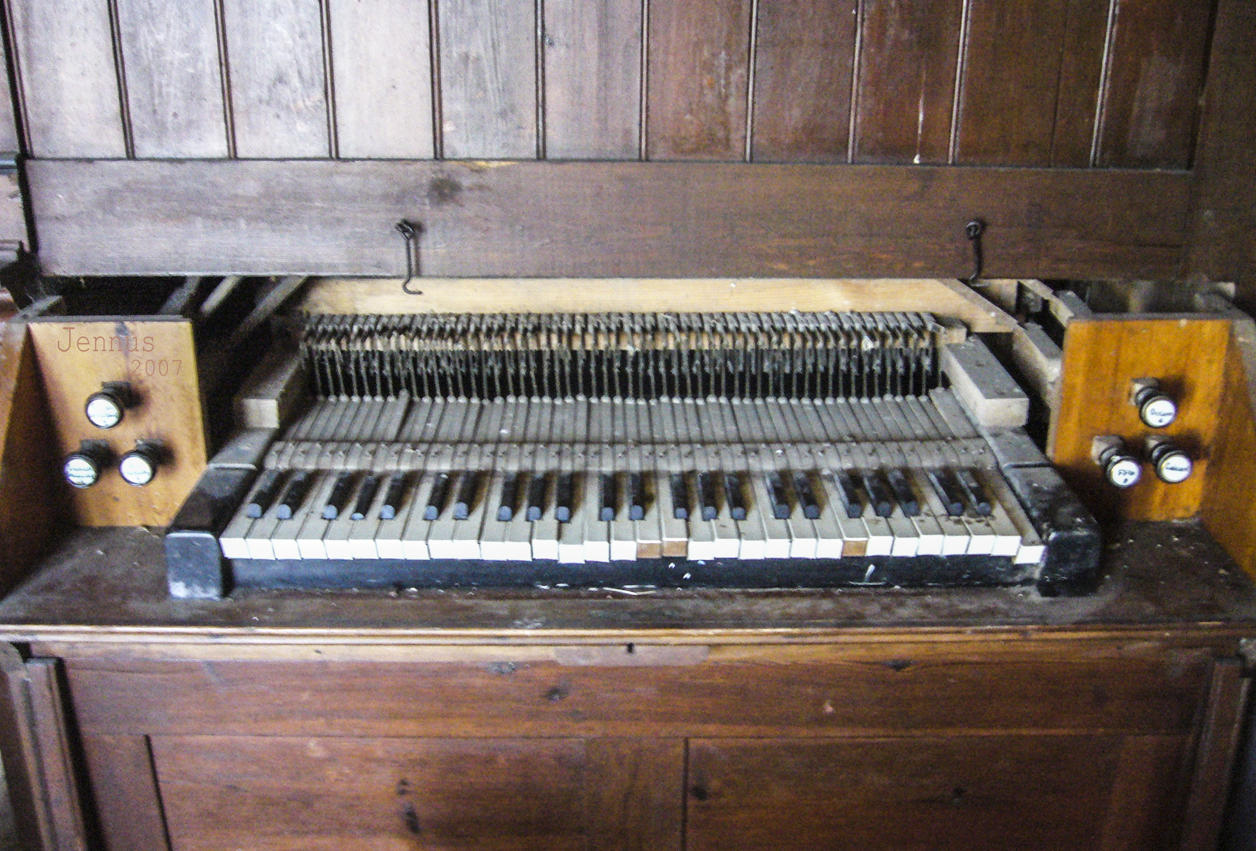 master organ builder Carl Börger